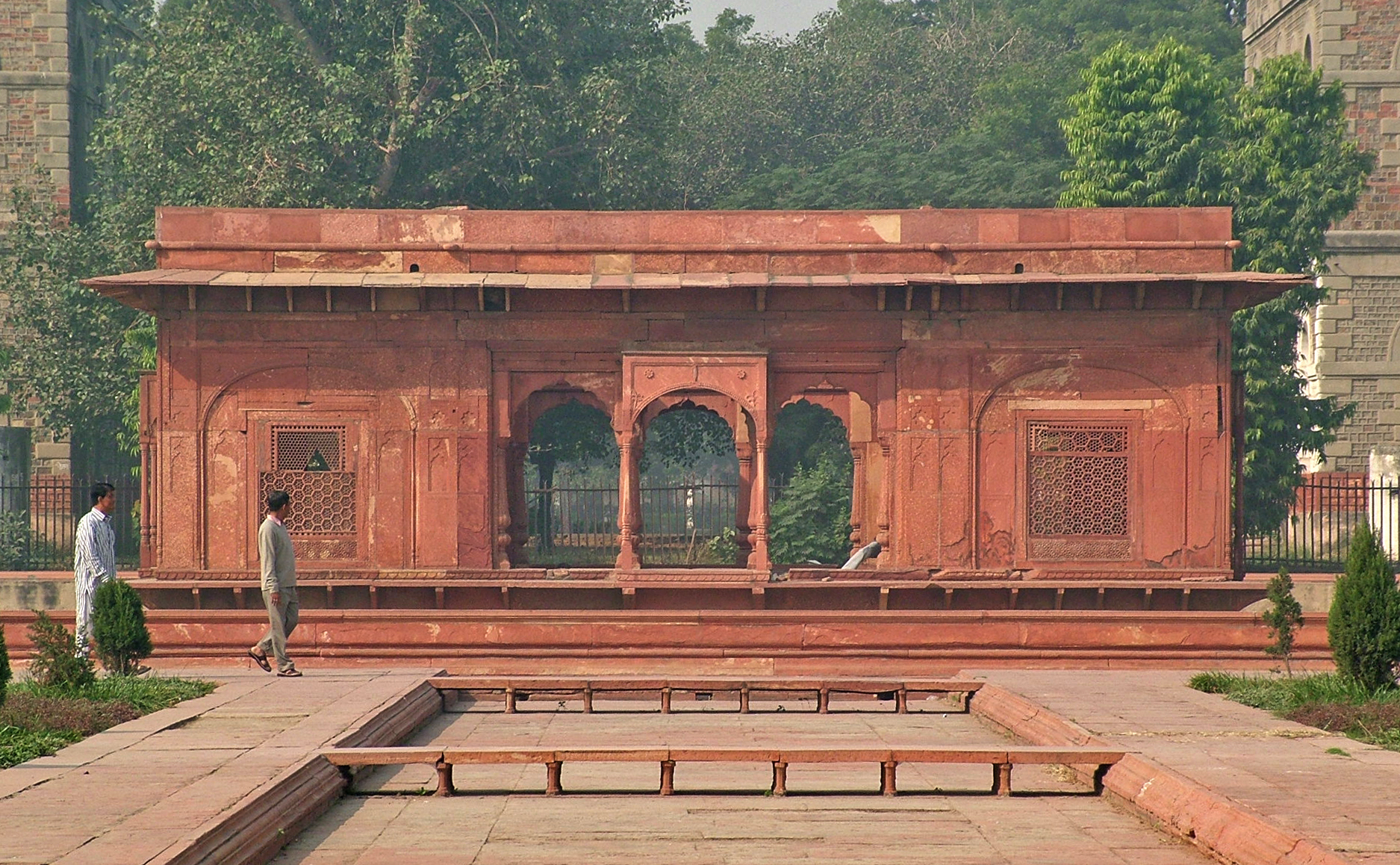 Zafar Mahal, Red Fort, Delhi, India